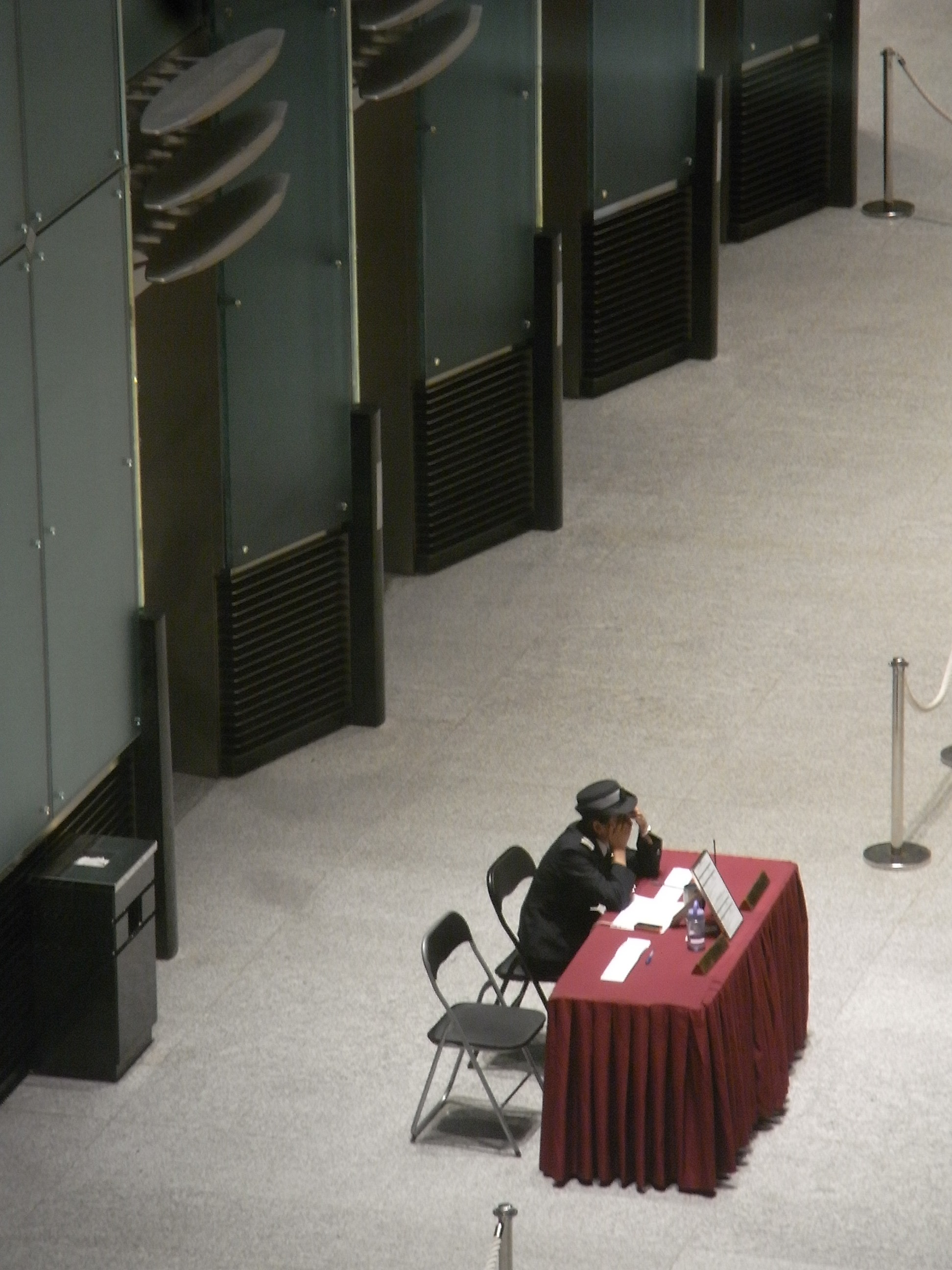 中環2010年9月 長江集團中心